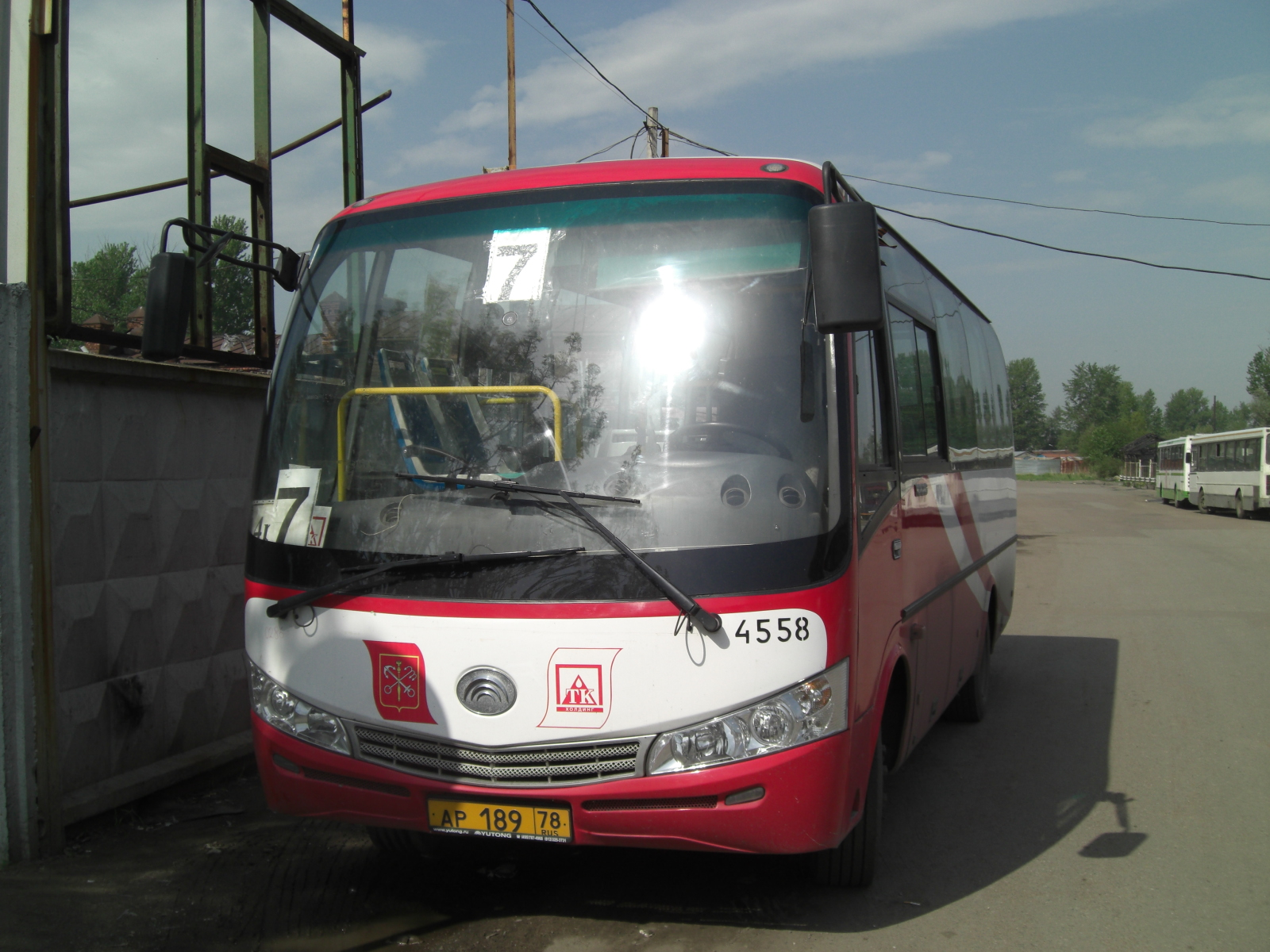 Yutong ZK6737D minibus (AP 189 78; #4558) OOO "PTK", St. Petersburg, Russia.